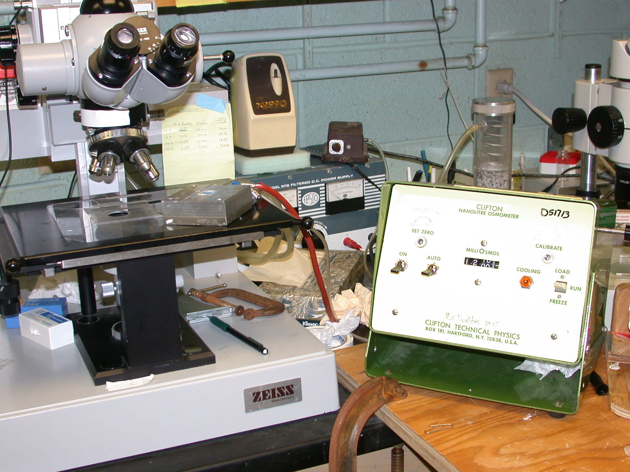 A Clifton nanoliter osmometer control box (yellow and green; right), a microscope and the Clifton nanoliter osmometer stage (metal box, sitting on the microscope stage)